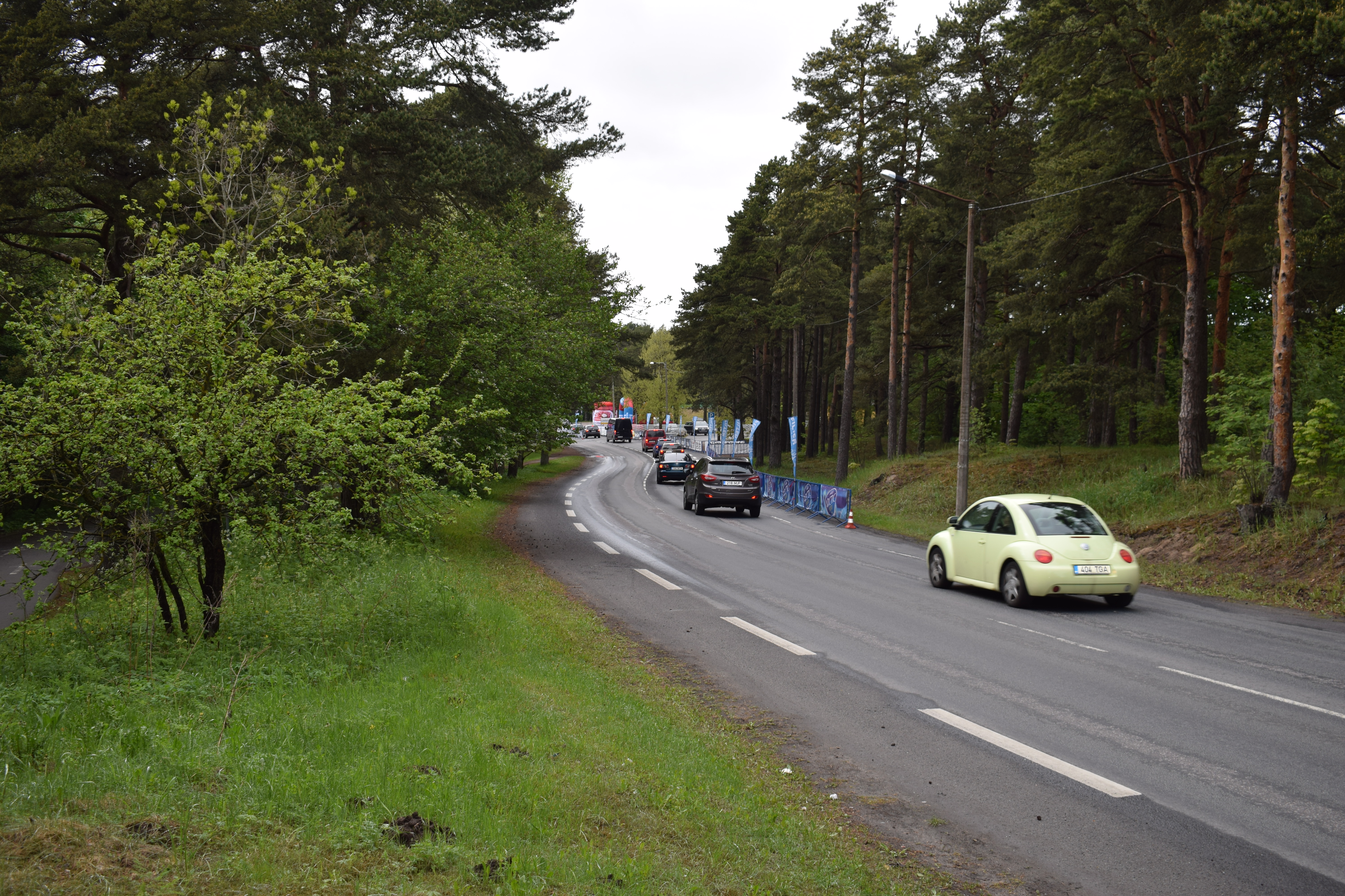 Rummu road